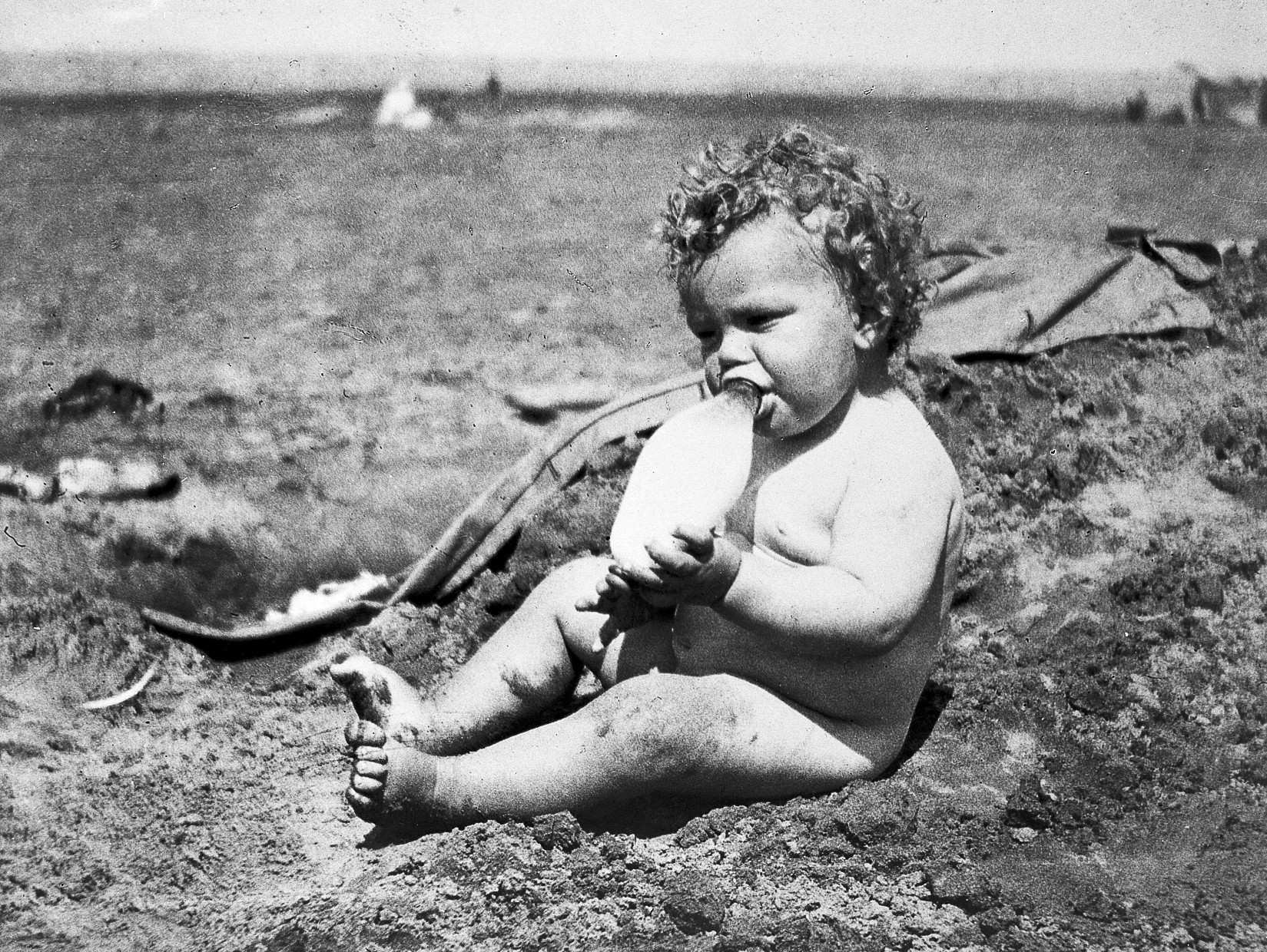 Baby with feeding bottle, 'Healthy baby'. Wellcome Images Keywords: childcare; feeding; Child Welfare